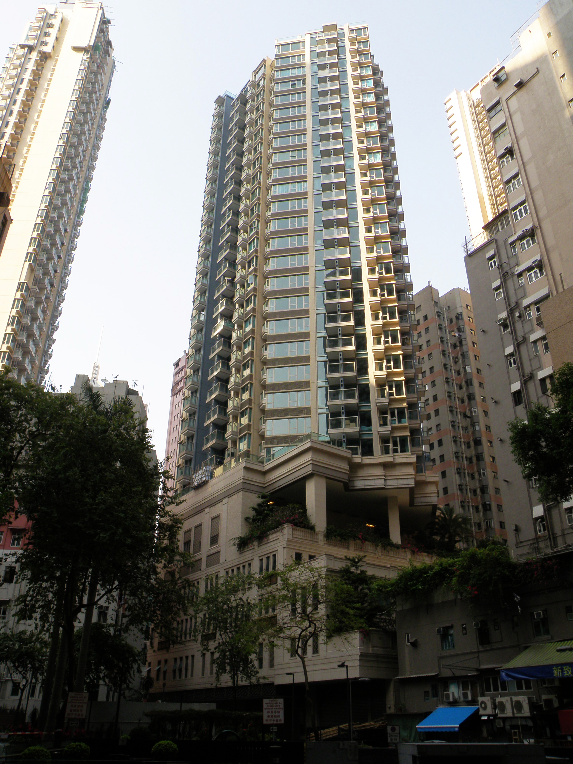 The Avenue in Wan Chai, Hong Kong.